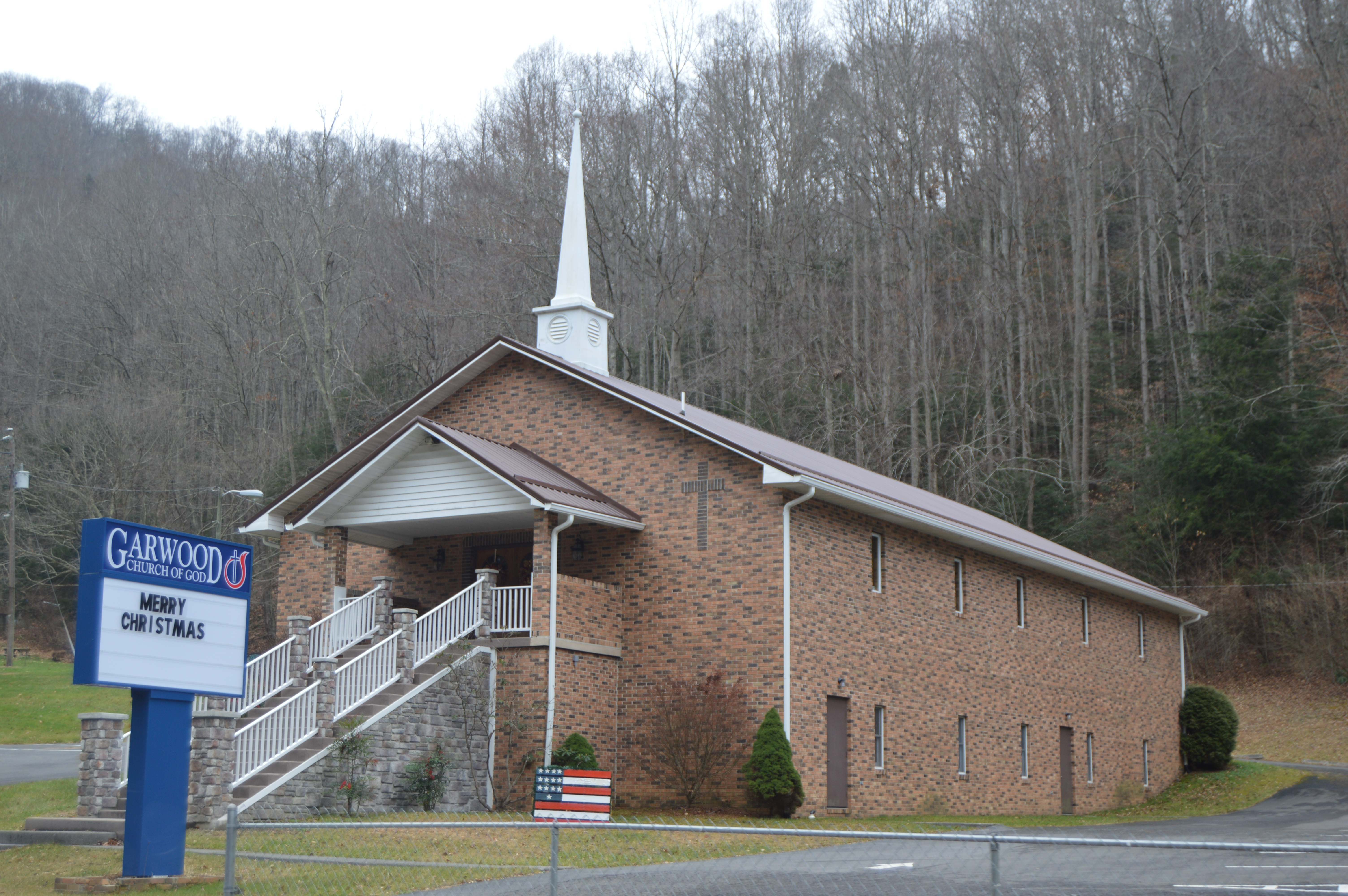 Front and northern side of the Garwood Church of God, located on West Virginia Route 10 at Garwood in Wyoming County, West Virginia, United States.